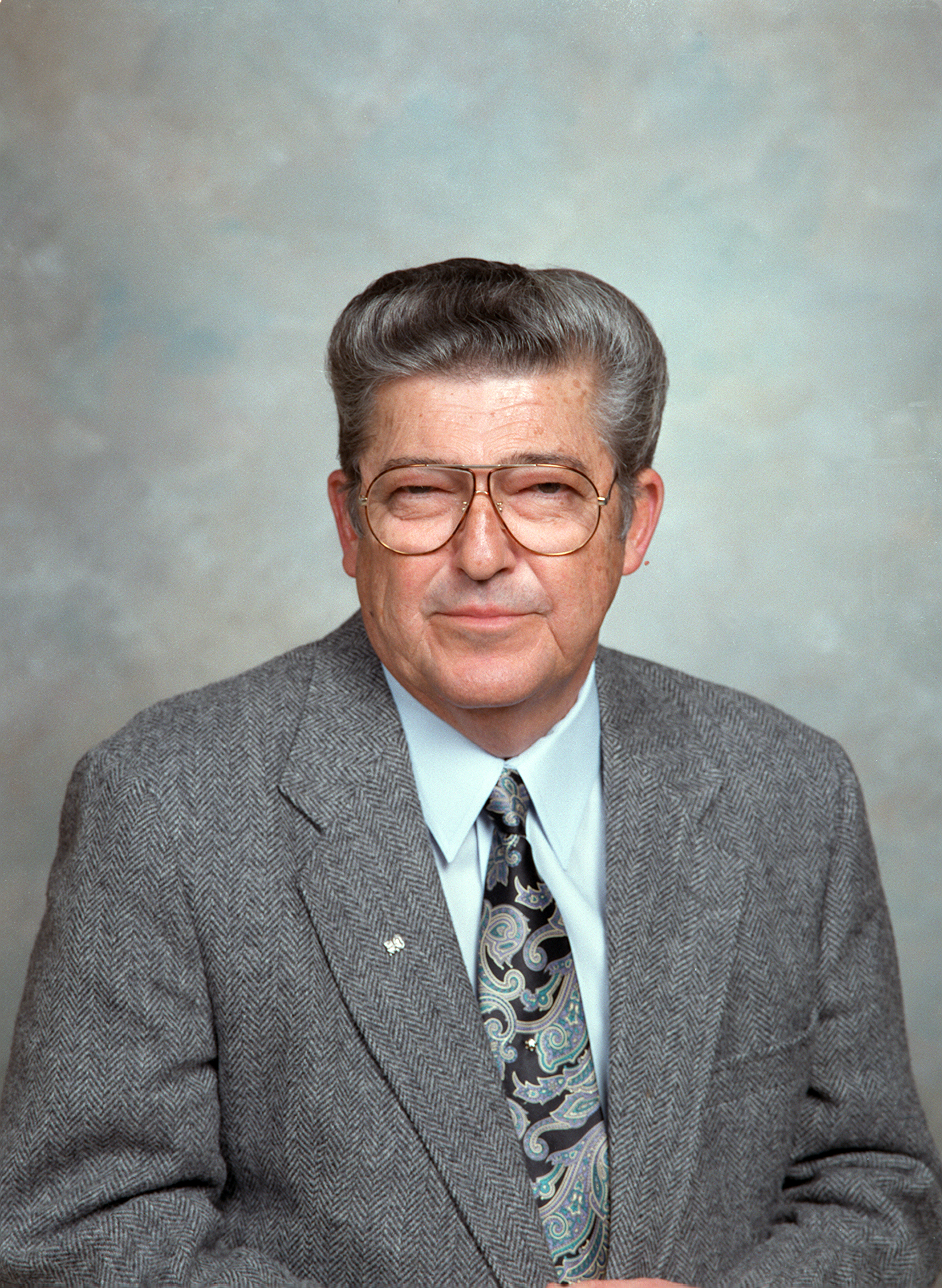 Official NASA portrait of former Marshall Space Flight Center director Gene Porter Bridwell.